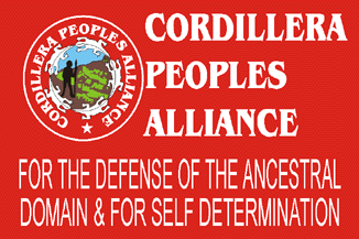 Cordillera People's Alliance flag